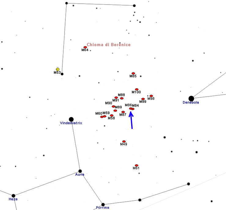 Map of M86